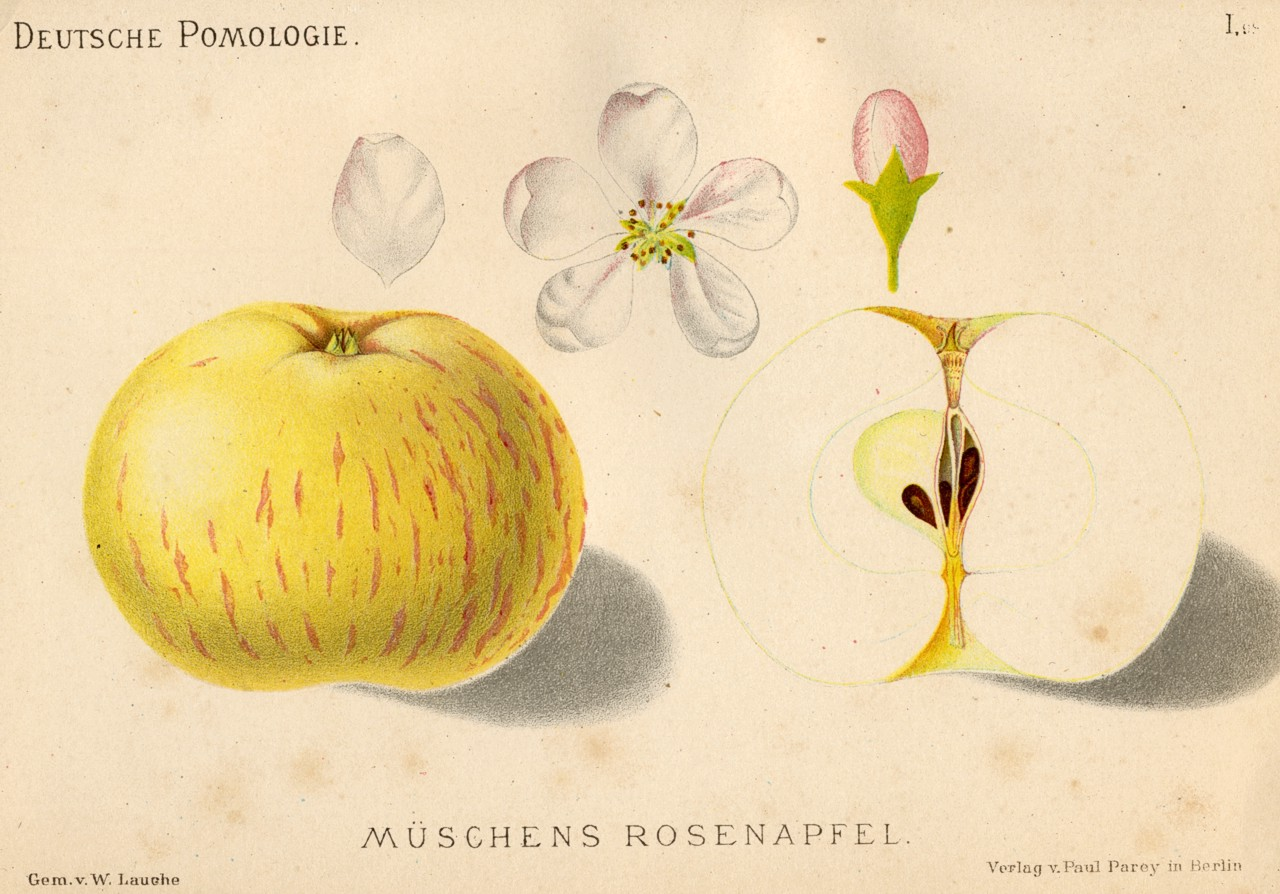 Illustration 98 from Deutsche Pomologie - Aepfel Apple cultivar shown: Müschen's Rosenapfel or Rambour d'été.